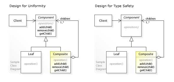 Class diagrams for the Composite design pattern. Design for uniformity versus design for type safety.